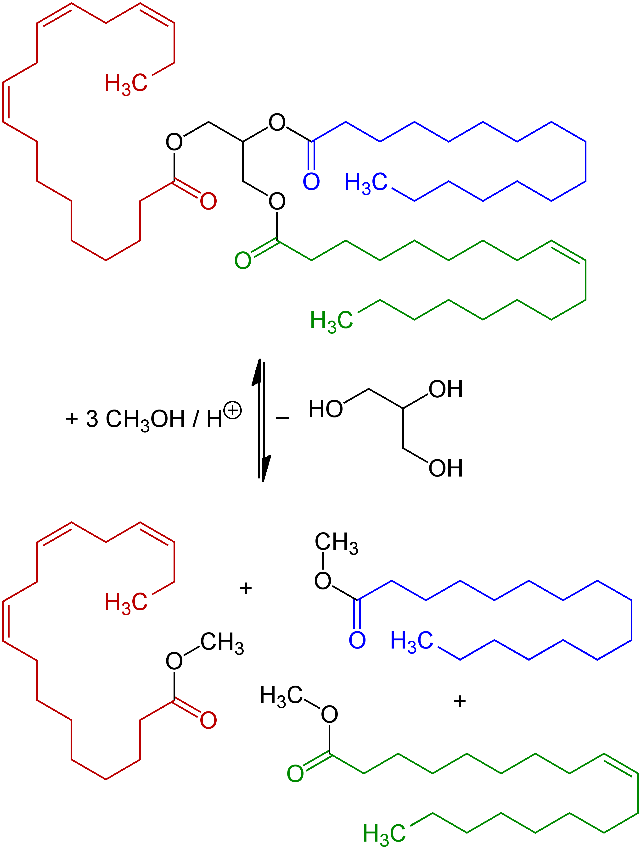 FAME_Synthesis